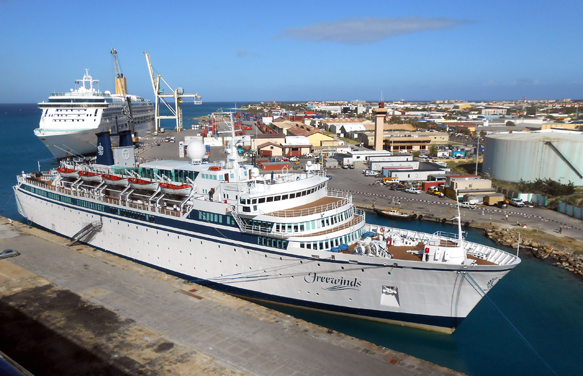 Freewinds is a cruise ship, which has been owned by the Church of Scientology since 1985. It currently carries 340 passengers. The ship was built in 1968. It was originally a car ferry in Europe, and later served minor cruise lines. P&O Aurora is in the background.